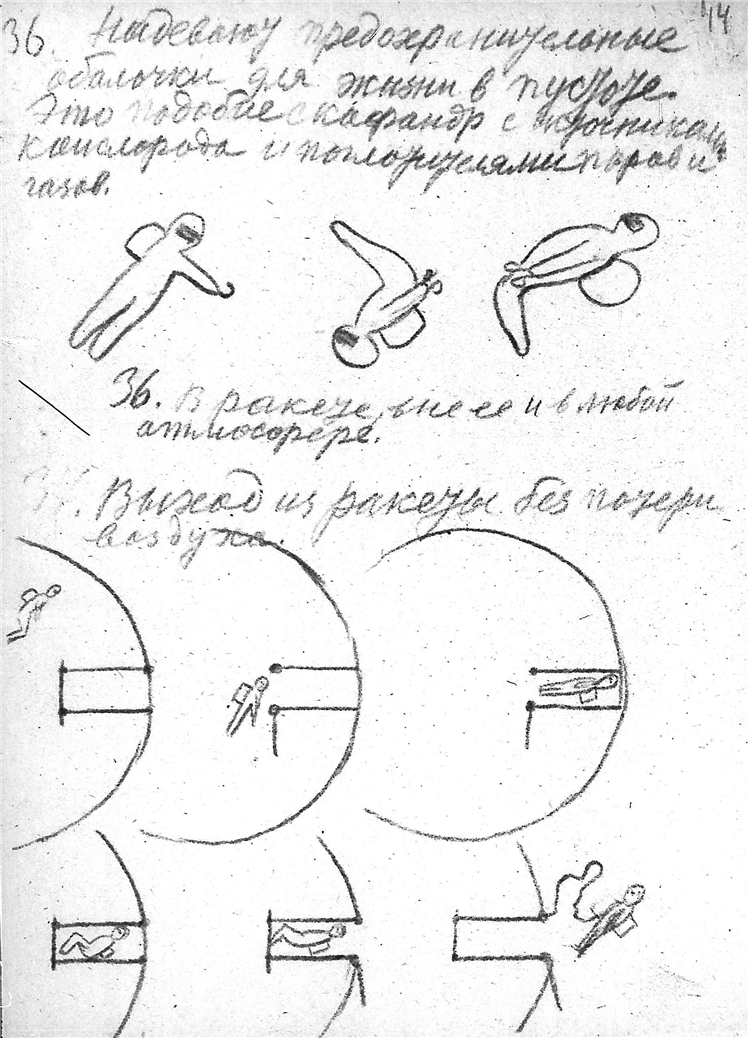 From Tsiolkovsky's 1933 paper "Album of Space Travel", manuscript page 44, drawing of an astronaut in a space suit using an airlock.